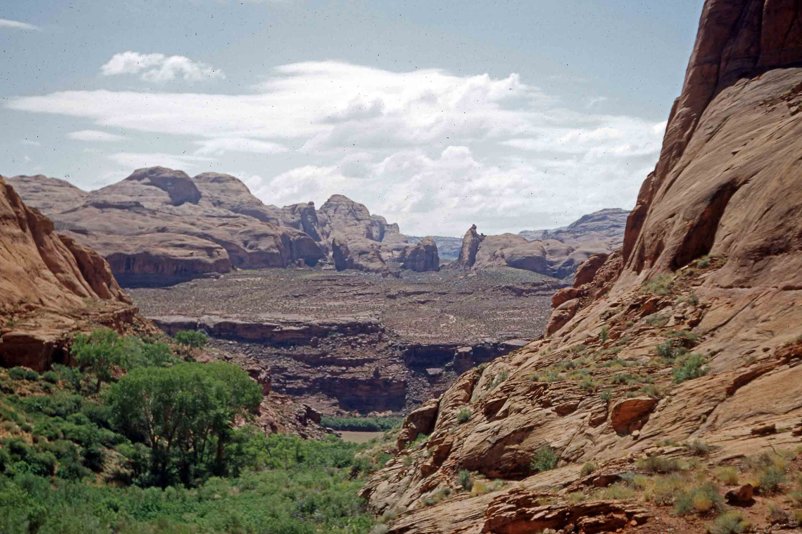 This 1954 photo is looking south east from the north west side of the Colorado River in Glen Canyon. The view is out across the Colorado River in Glen Canyon at river mile 84.4